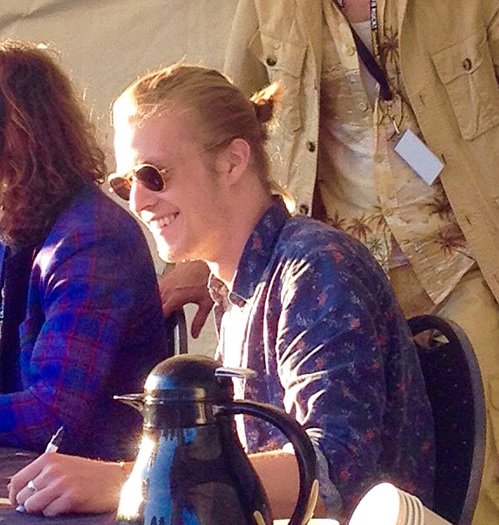 Picture of Rufus Tiger Taylor